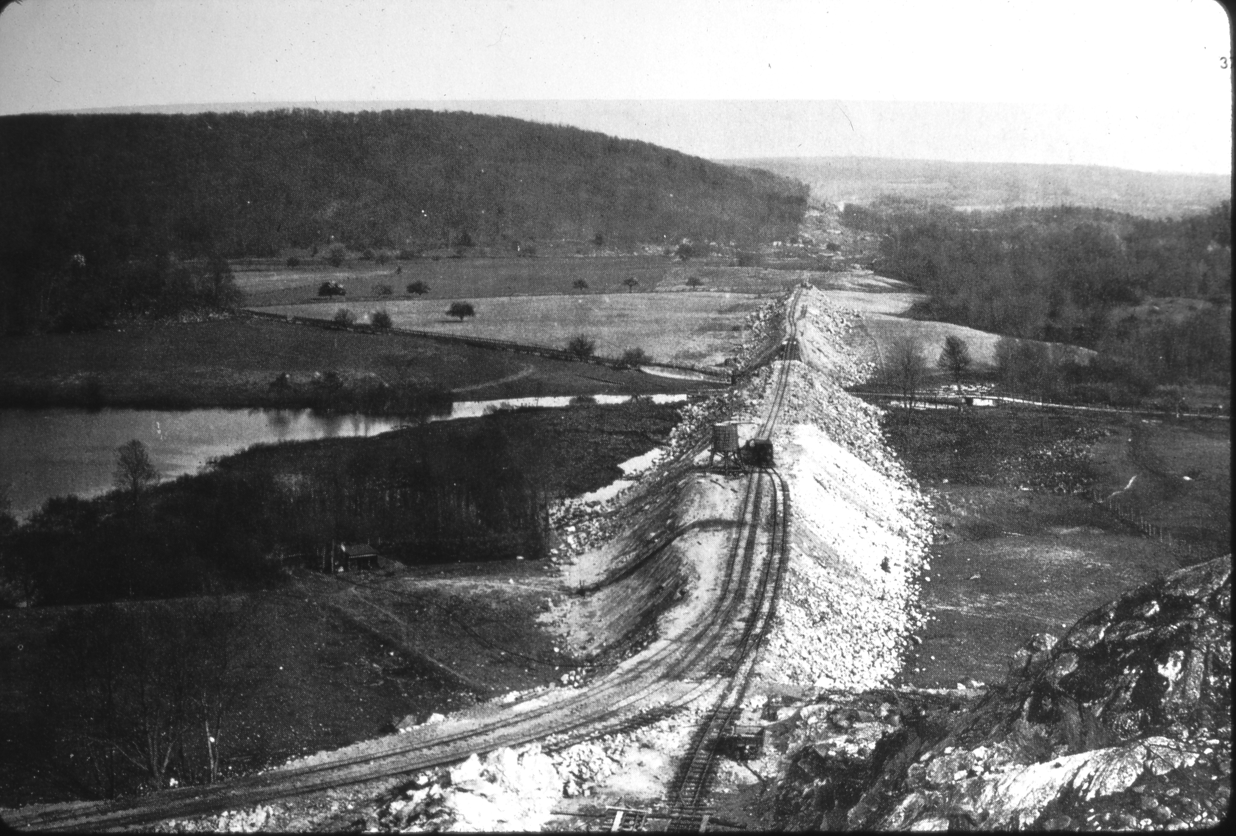 Wharton Fill during construction on the Lackawanna Cut-Off - May 1909Wally From Columbia (NJ) (talk) 00:51, 29 November 2010 (UTC)